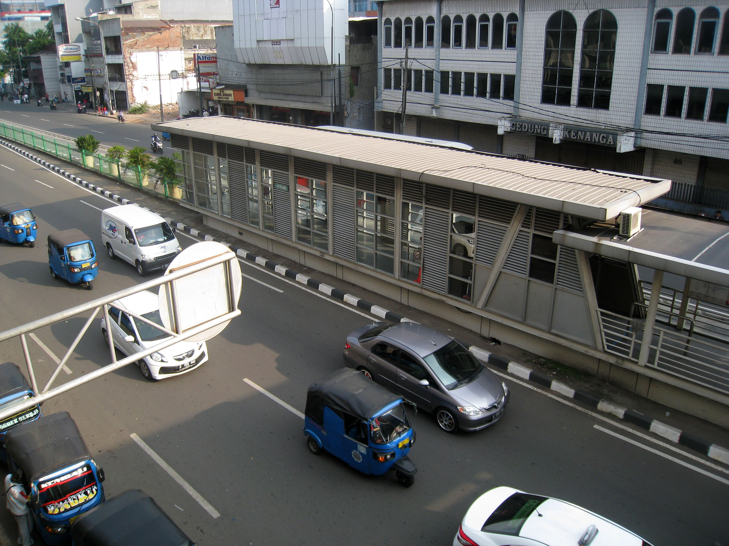 Transjakarta Atrium Senen station or bus stop, Central Jakarta, Indonesia.